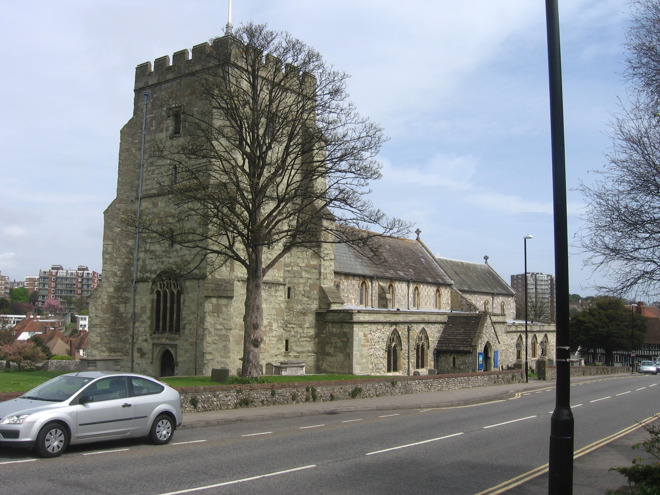 St Mary the Virgin parish church, Church Street, Old Town, Eastbourne, East Sussex, England, seen from the southwest